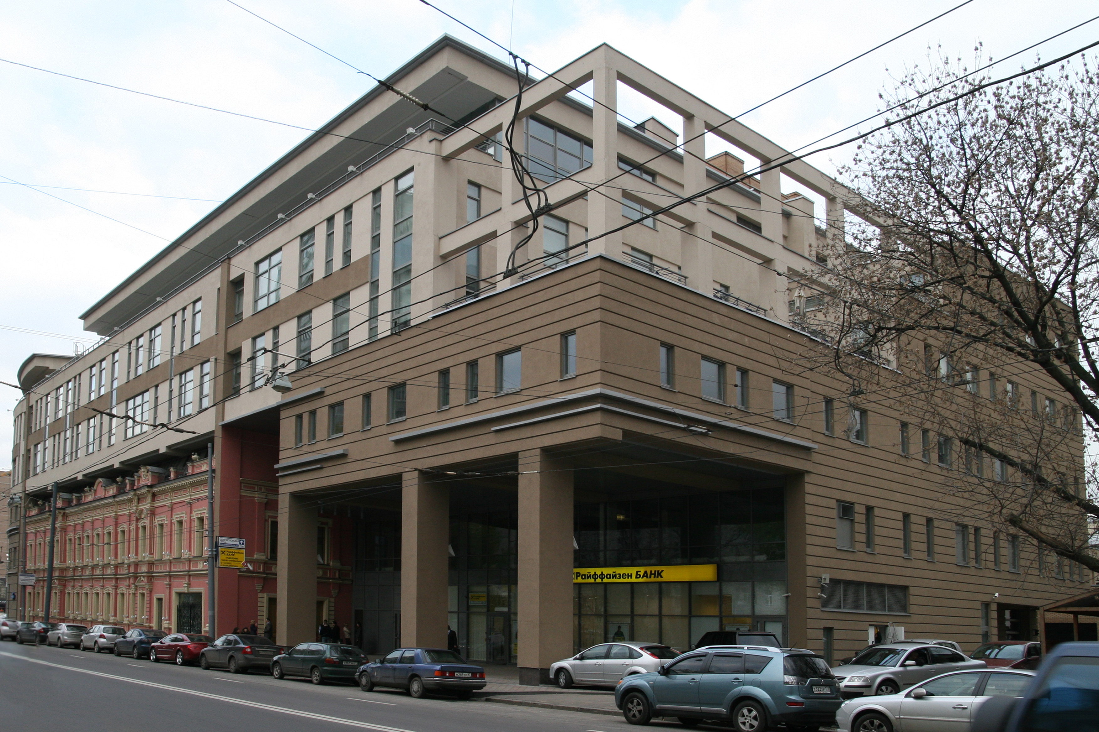 Moscow, Malaya Dmitrovka Street 20